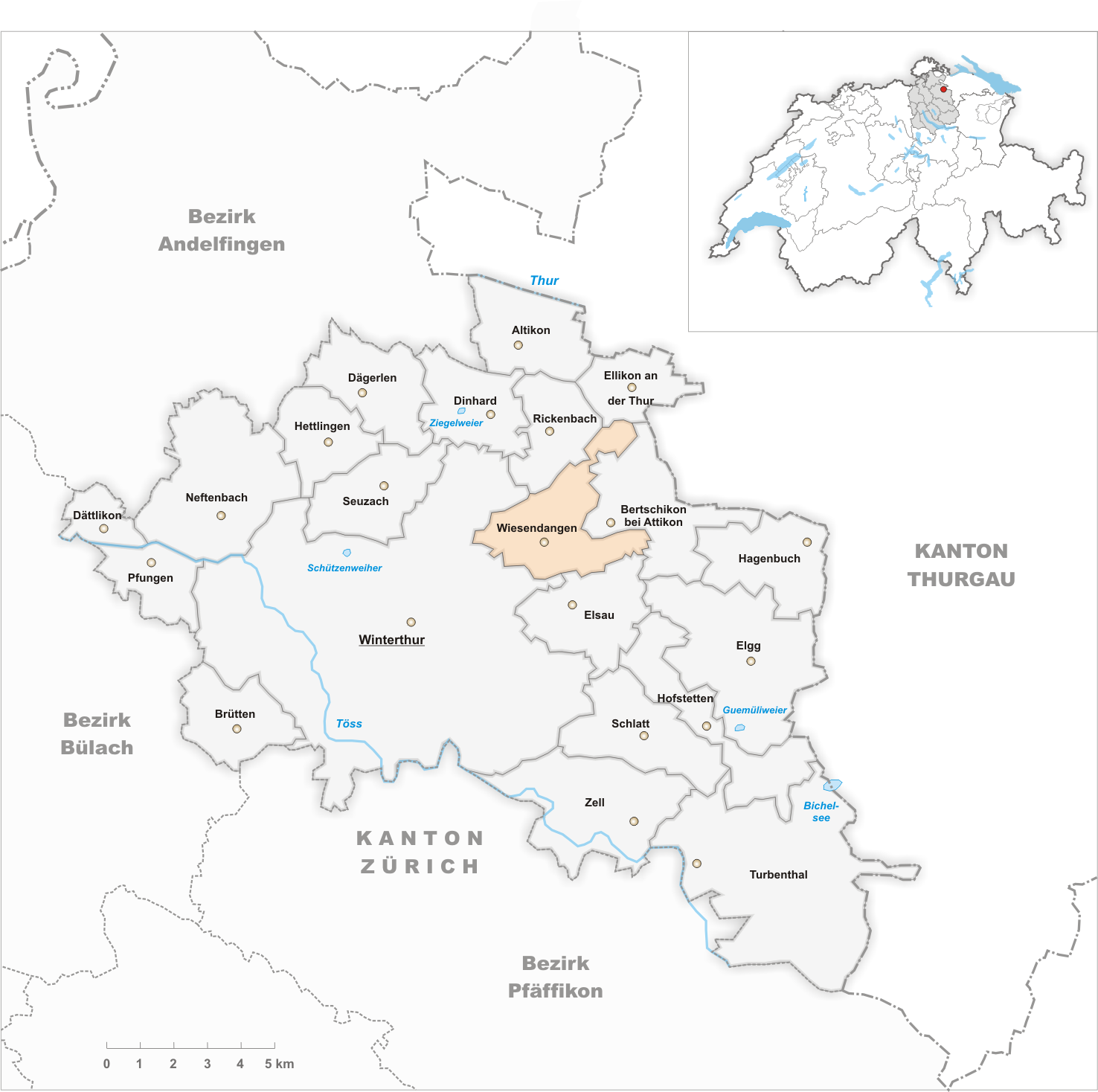 Municipality Wiesendangen